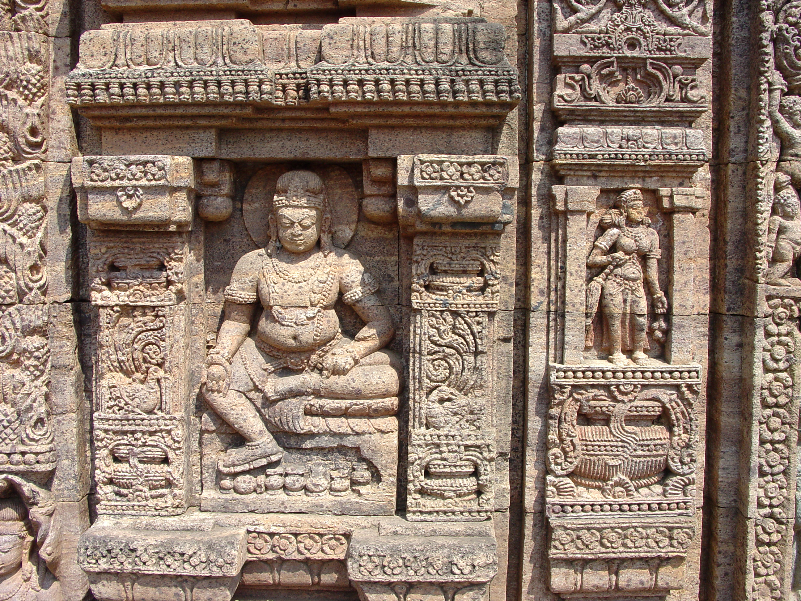 Kubera was adopted into Buddhism as Panchika, representing the wealth of enlightenment. While (as usual in India's additive culture) all possible meanings really apply at once, in this case the overall symbolism of "prosperity" seems to predominate over any specifically Buddhist understandings of these figures.